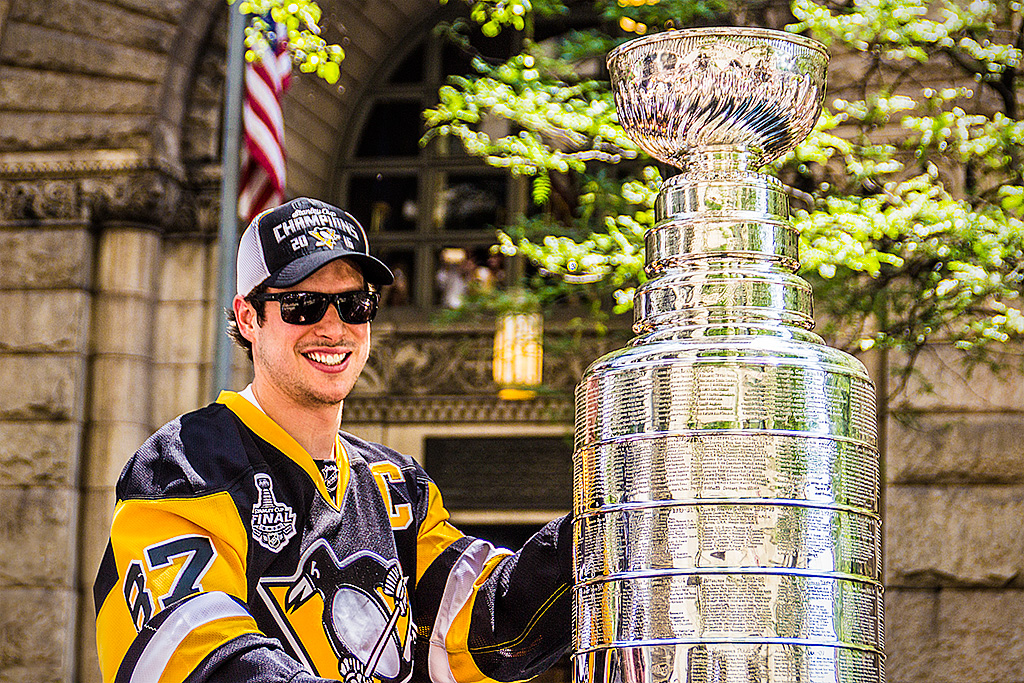 Crosby with his second Stanley Cup